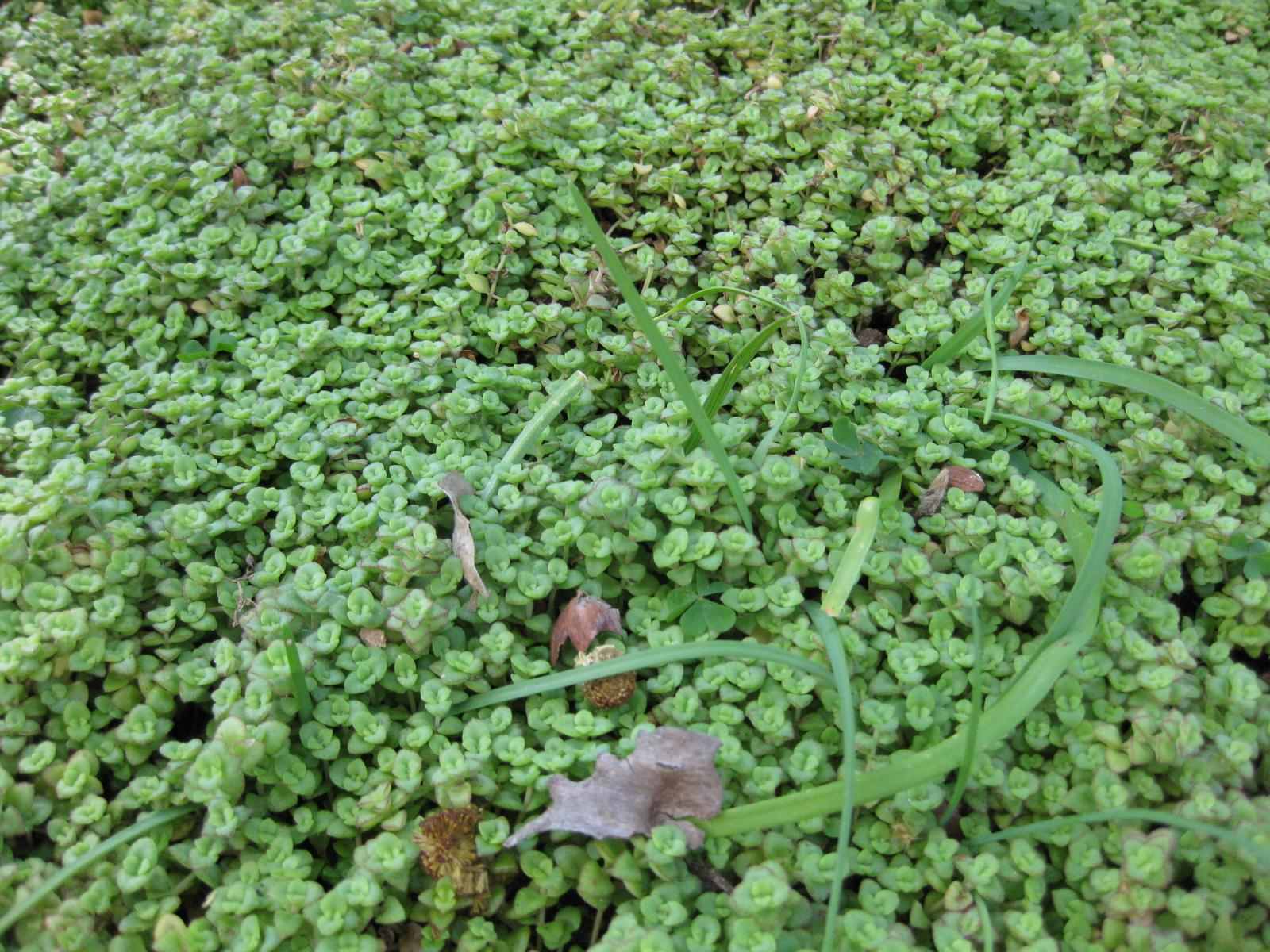 Photographed at Huntington Gardens (Los Angeles, California) in March